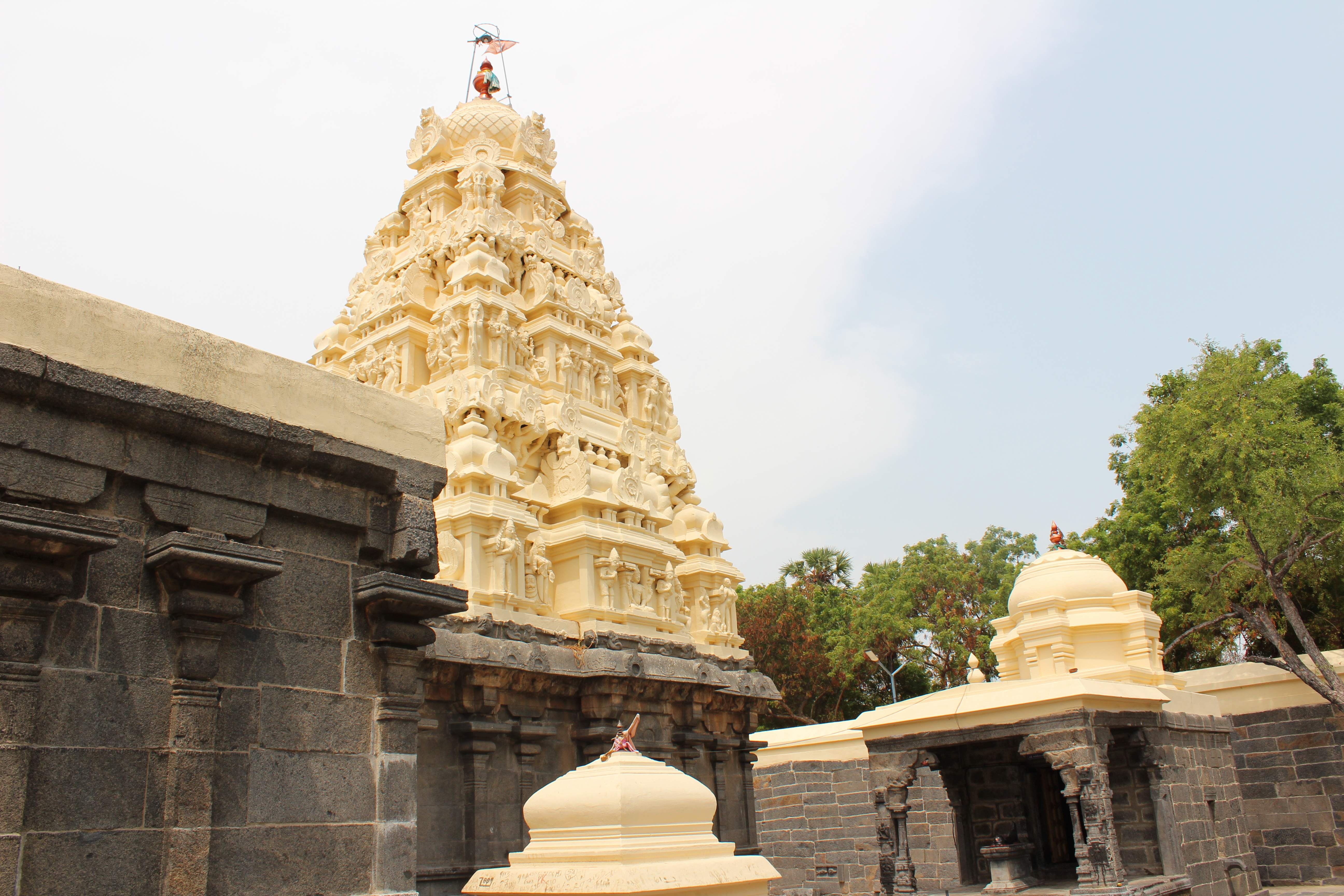 Vadukeeswarar temple, Thirubuvanai. Also called Panchanadeeswarar temple, Thiruvandar kovil.